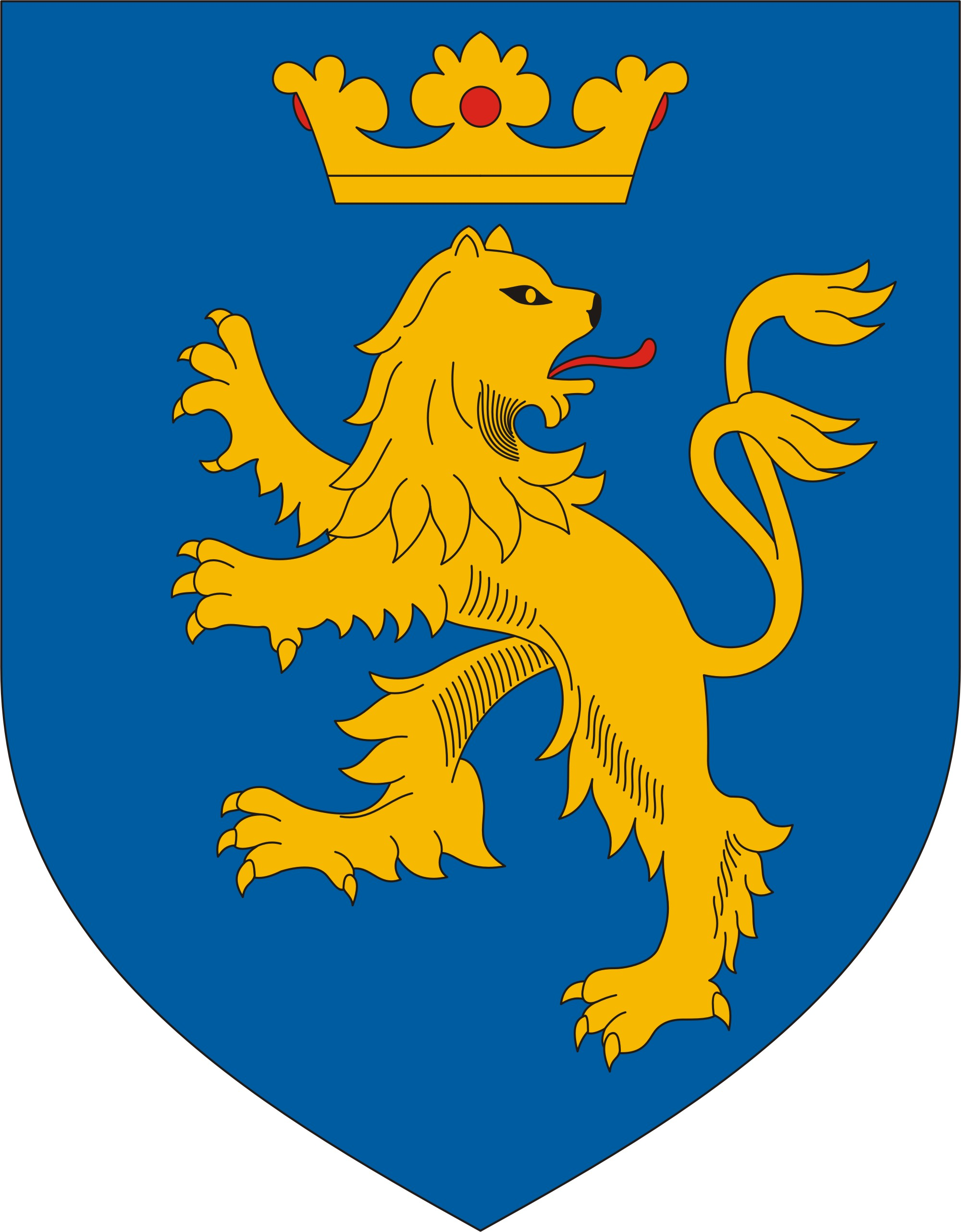 Coat of arms of Adorjánháza, Hungary